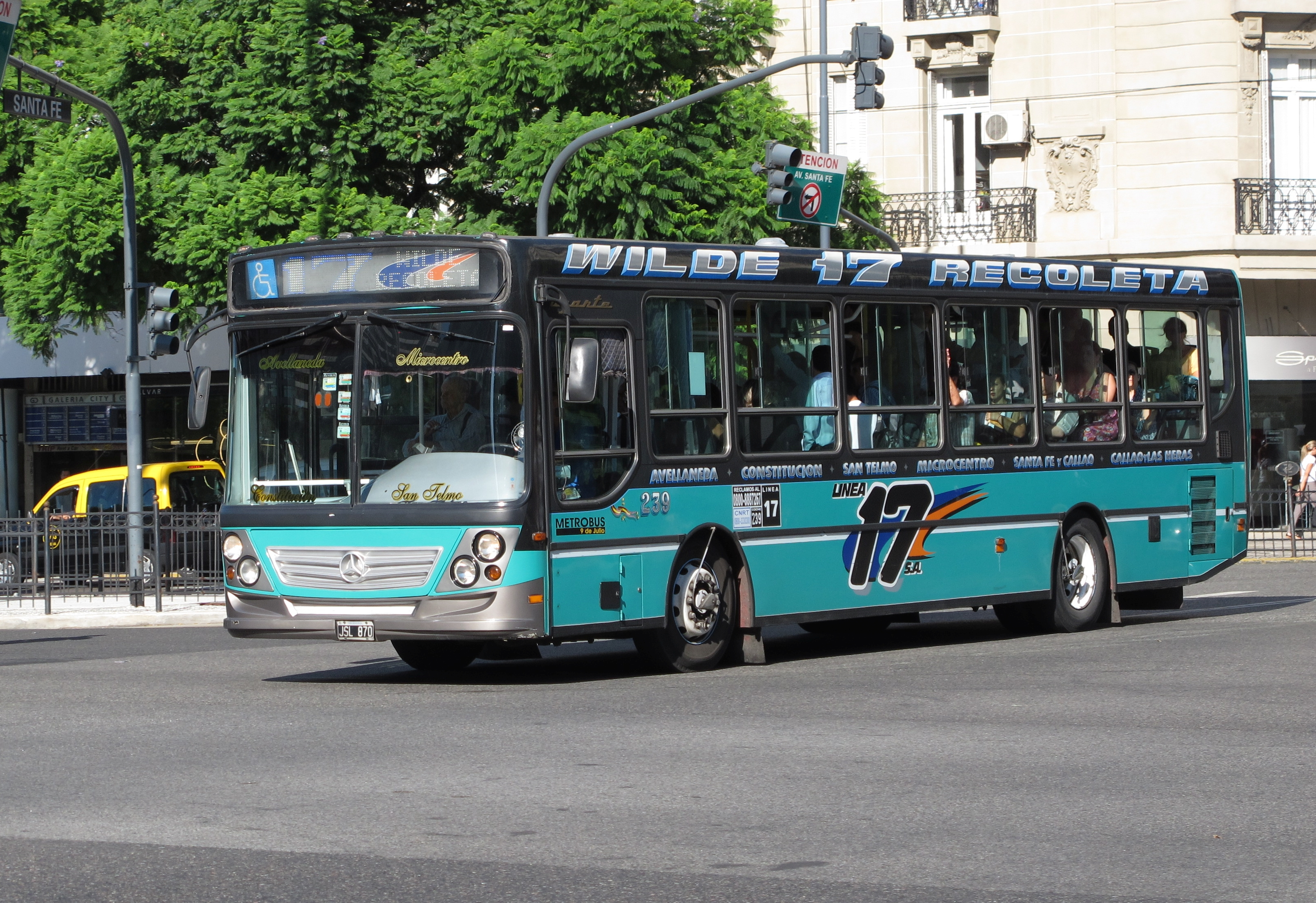 Buenos Aires - Ugarte Mercedes-Benz bus #239 on line No. 17 (Av Santa Fe)